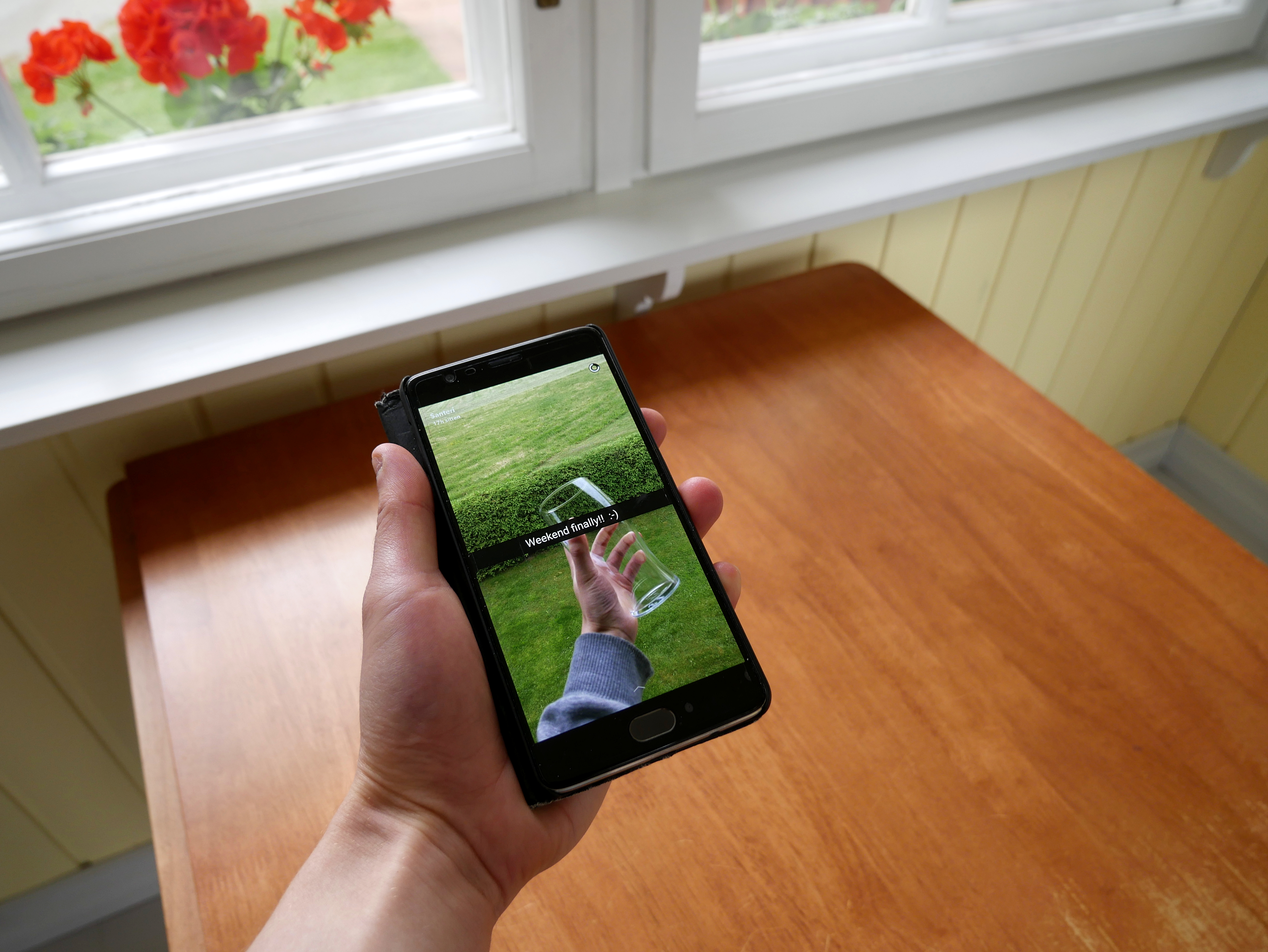 Snapchat snap illustration.